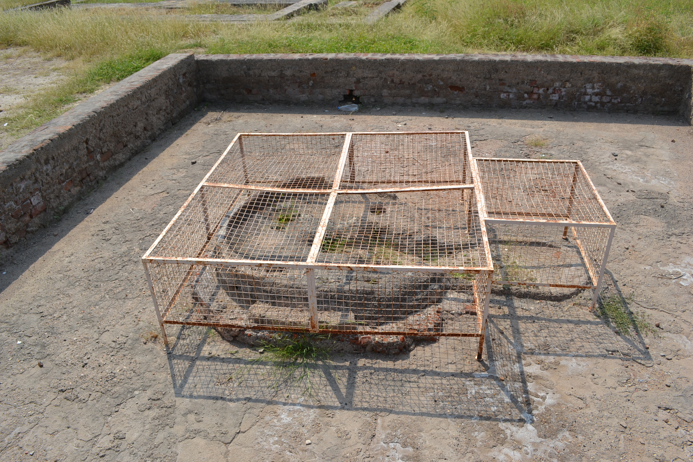 archaeological feature